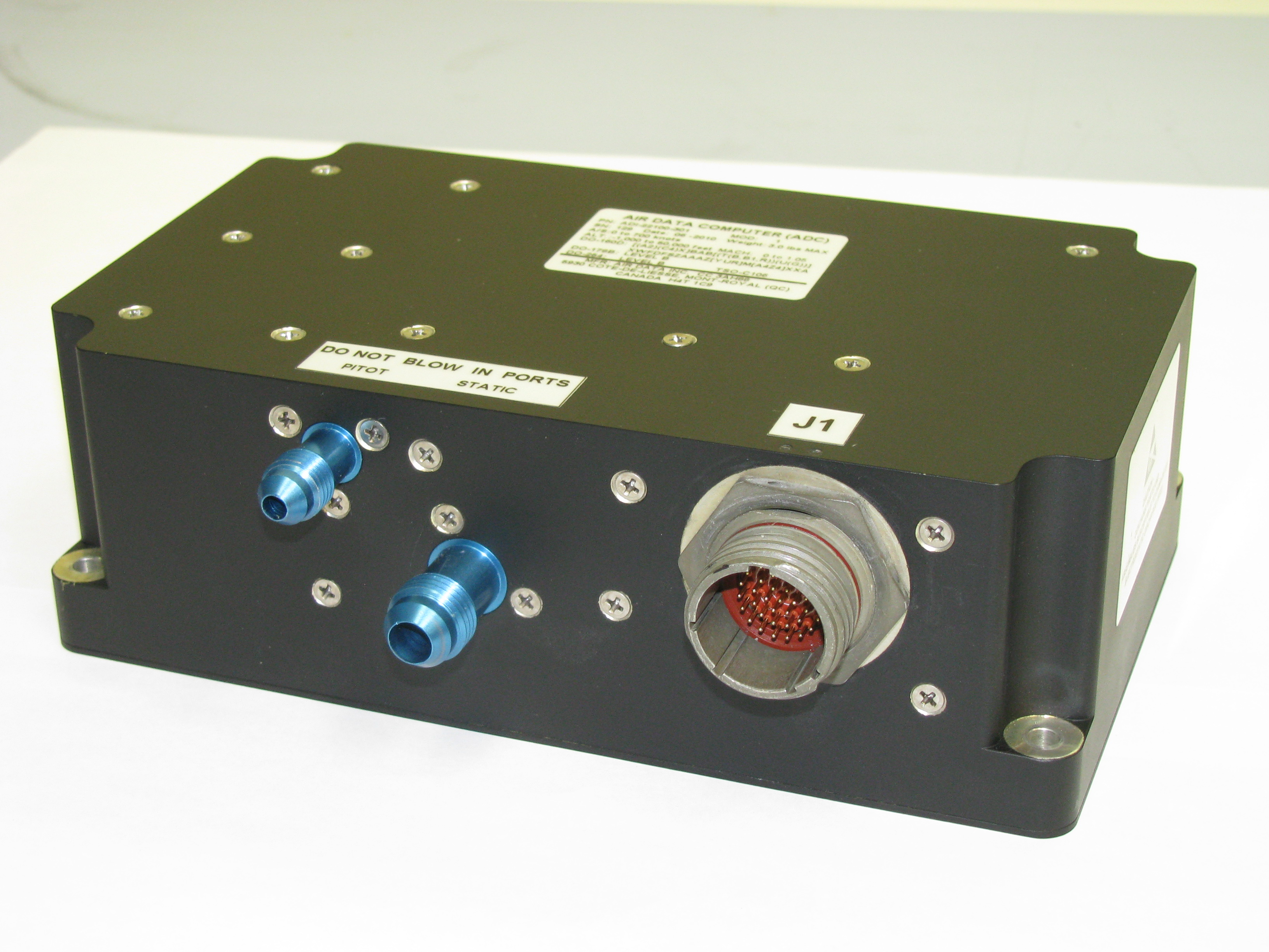 ADC is designed to measure and compute navigation parameters. Key Features : - Pressure altitude - Baro-corrected altitude - Altitude rate of change - Computed and true airspeeds - Mach number - Static air temperature